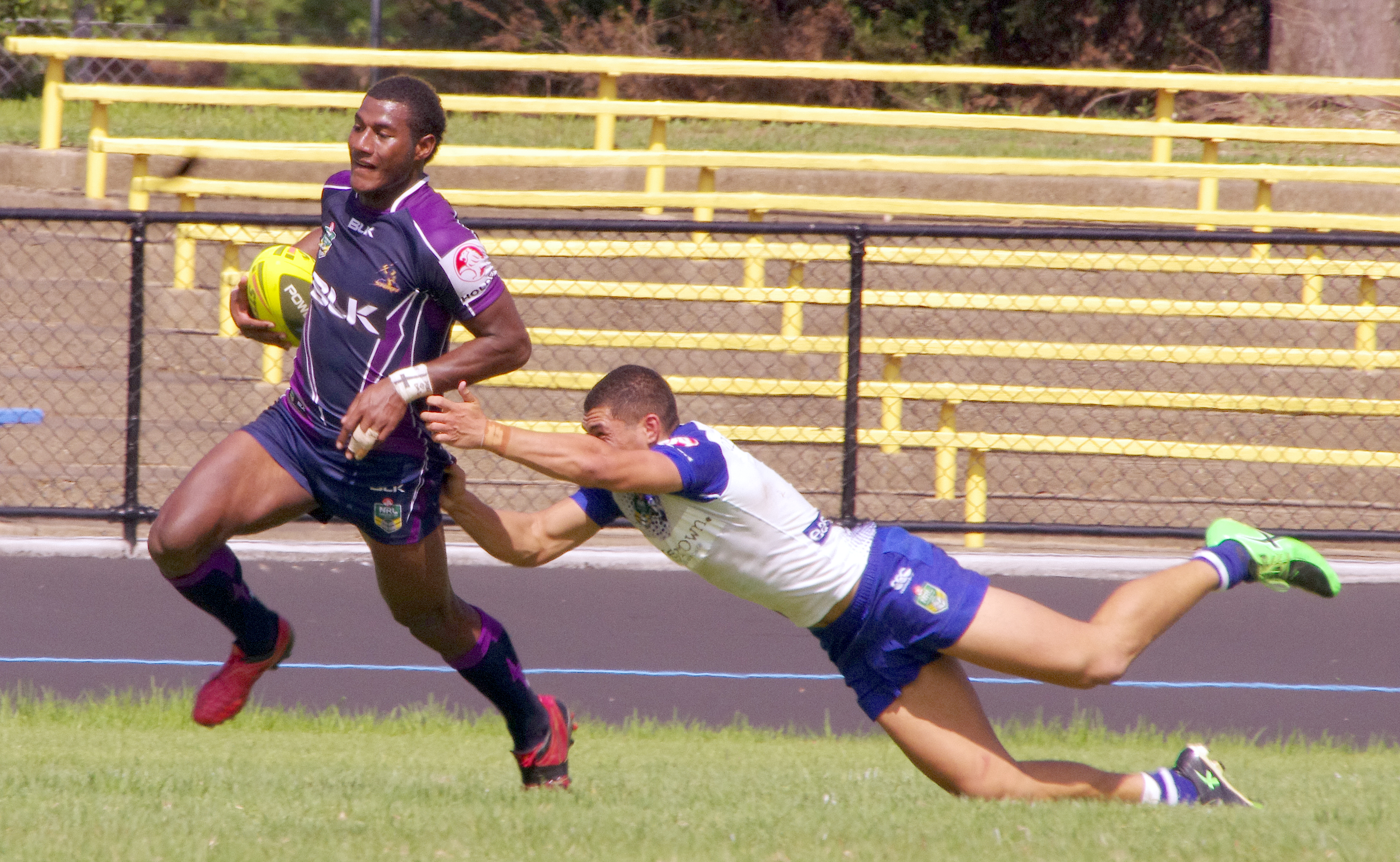 Suliasi Vunivalu